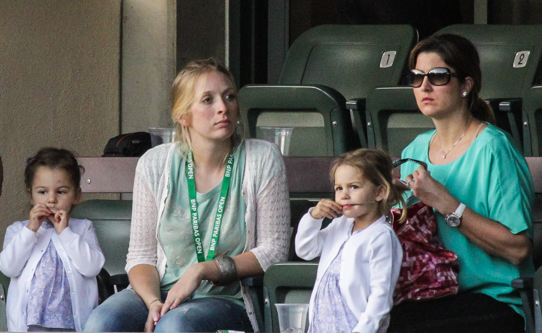 Roger Federer's wife Mirka and 2 twin daughters enjoying a win for Roger